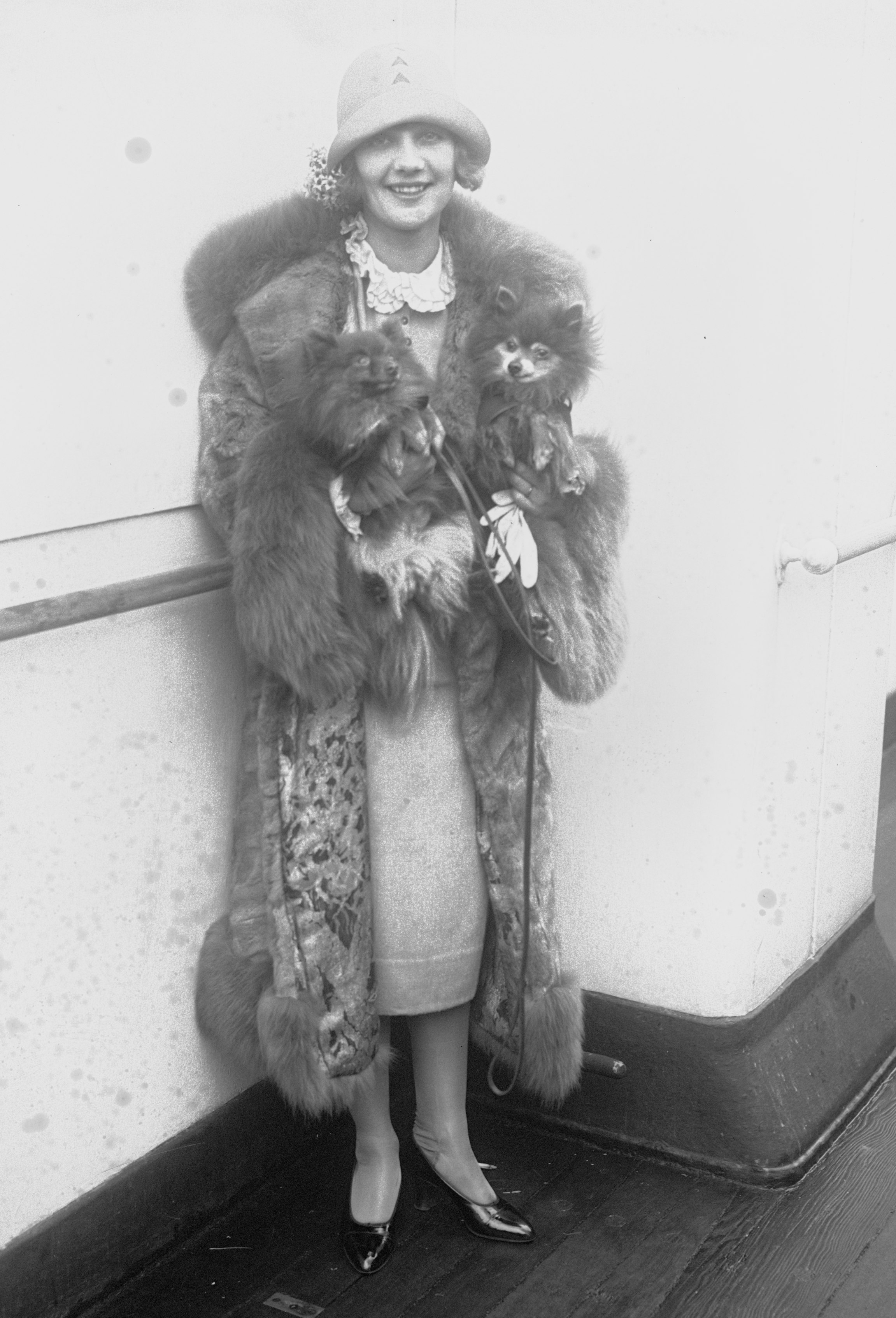 Title: Queenie Thomas Abstract/medium: 1 negative : glass ; 5 x 7 in. or smaller.